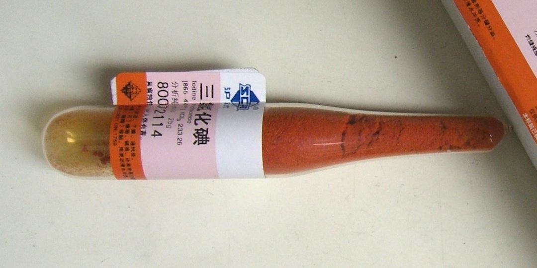 Commercial sample of iodine trichloride